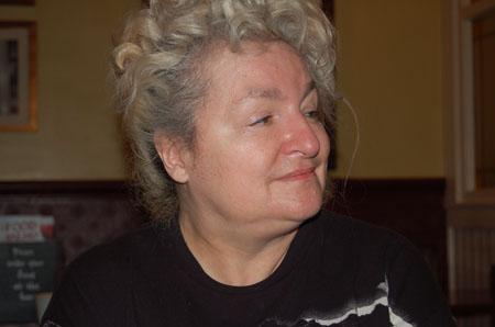 American-born science fiction authoress, Pat Cadigan, at the 2007 World Fantasy Convention.